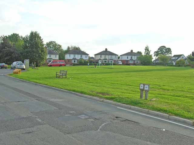 Houghton village green. Houghton is now a suburb of Carlisle.